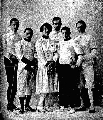 Polish fencers team AZS Kraków in 1922. From left to right: Macudziński, Winkler, Dubieńska, Papeé, Ader, Zabielski.